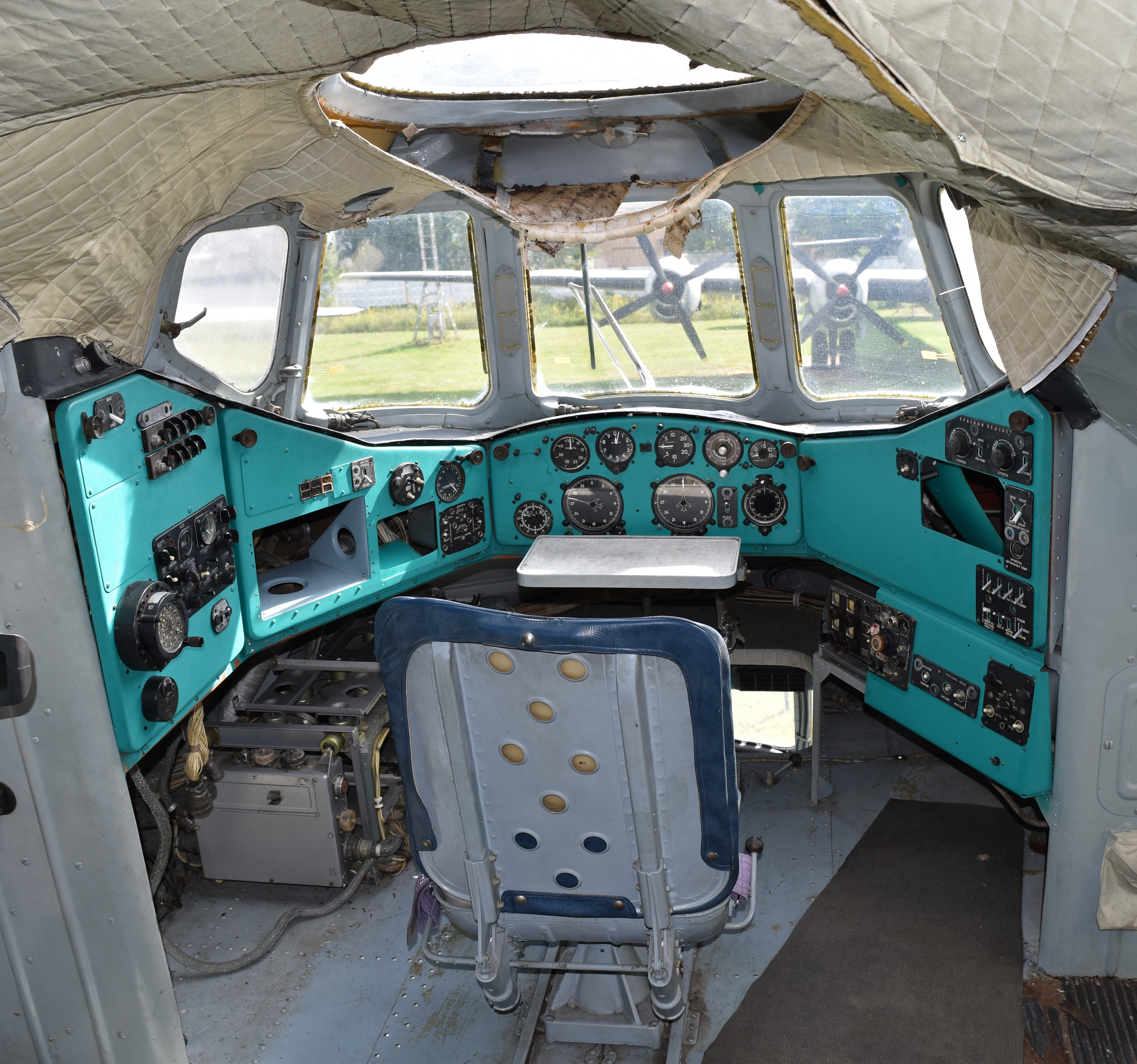 This is the upper cockpit of the impressive Mil V-12. The pilot, co-pilot, flight engineer and electrical engineer were below in the main cockpit, while the navigator and radio operator were in this cockpit upstairs. We were very privileged to be given full access to the aircraft during our visit. Since 1975 it has been on display at the Central Air Force museum, Monino, Moscow Oblast, Russia. 27th August 2017